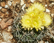 Coryphantha scheeri var robustispina